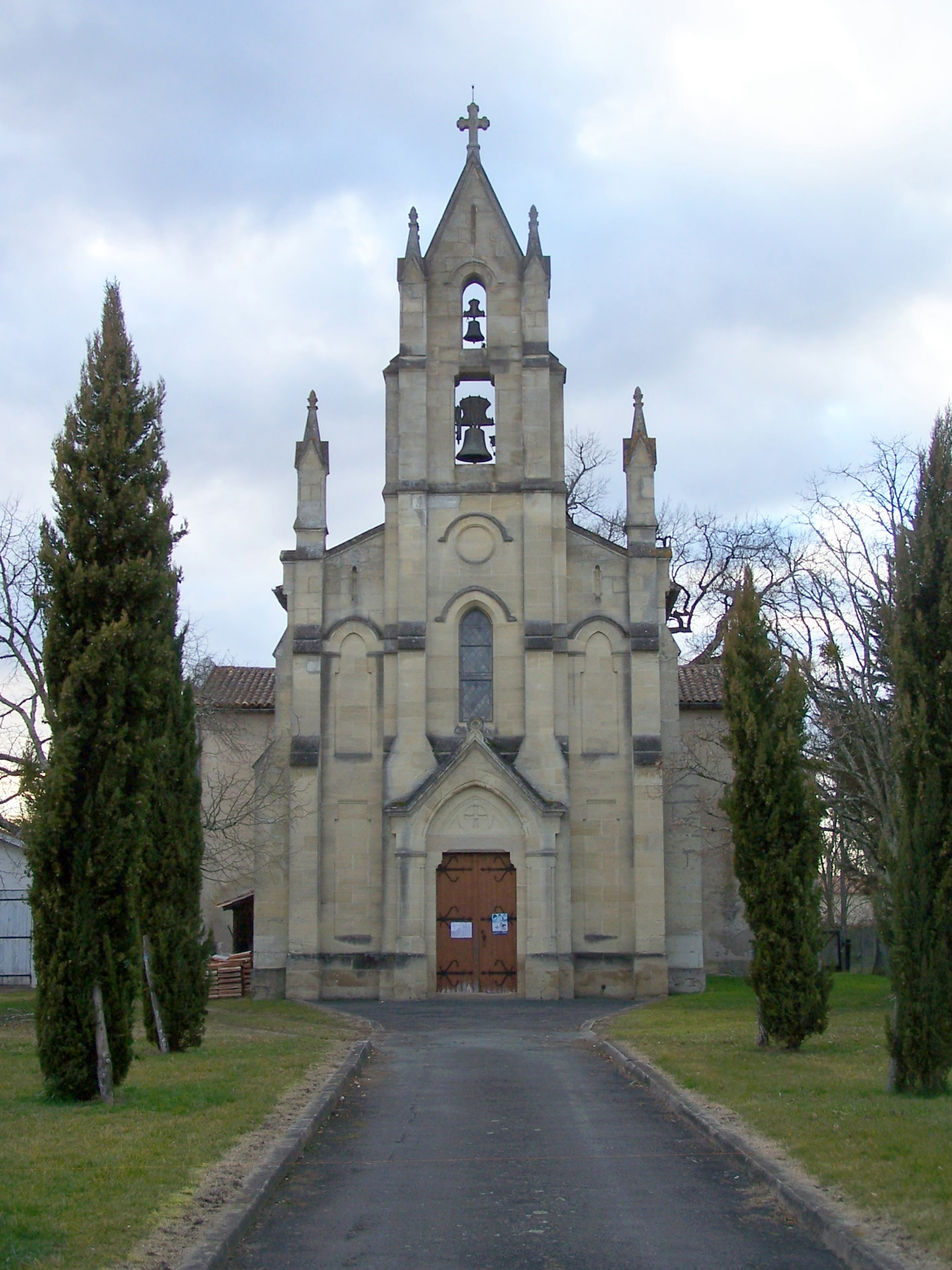 Church of Le Tuzan (Gironde, France)